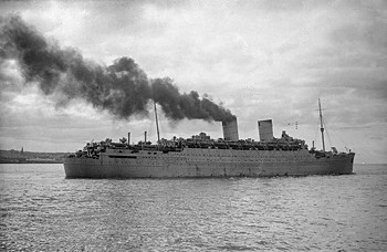 RMS Mauretania in her white paint. IMO number: 5522977 Length: 235.3 m Beam: 27.2 m